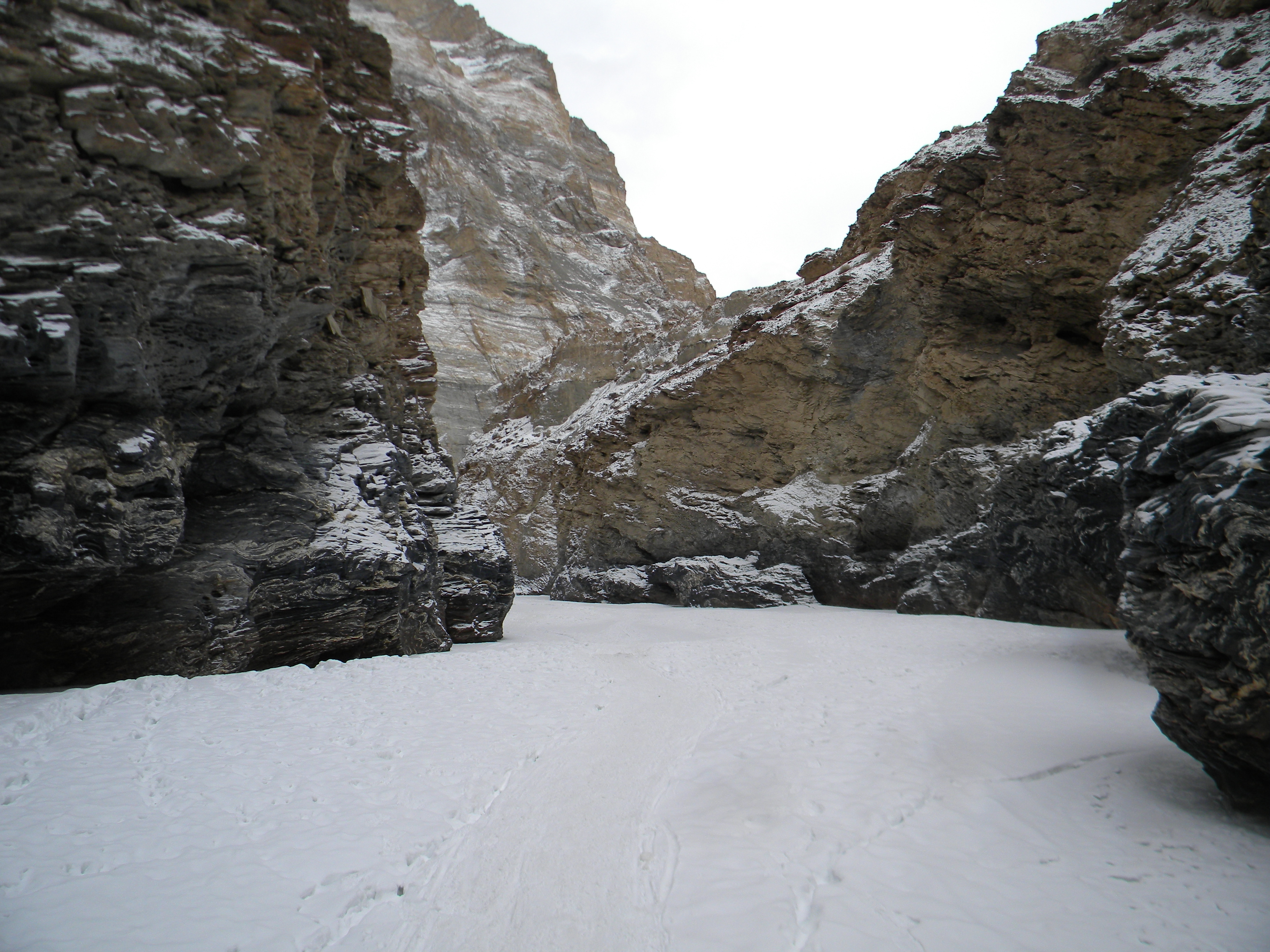 Frozen Zanskar River, February 2014